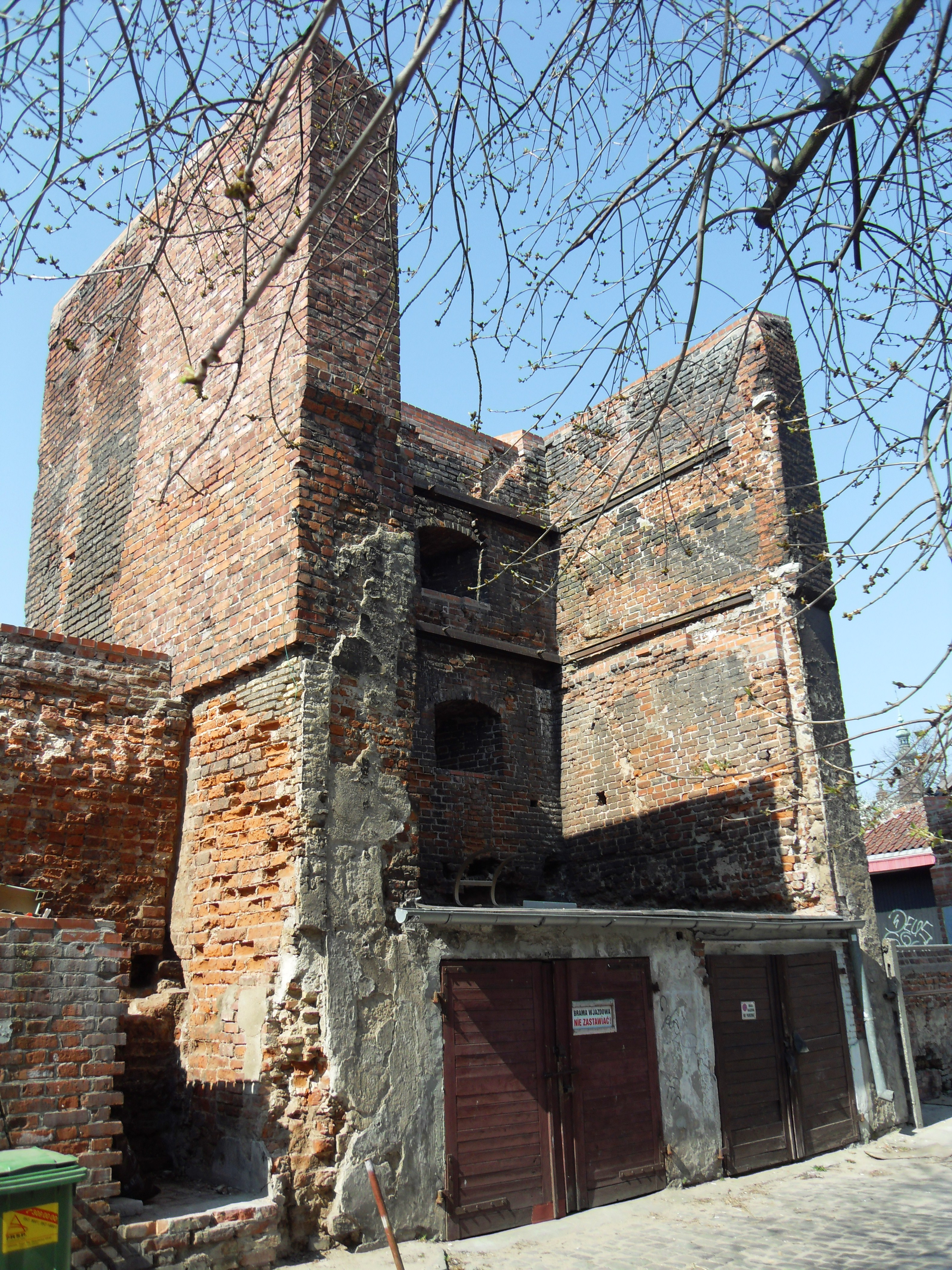 Middle Ages Latarniana Tower in Gdańsk (Poland) - the interior.